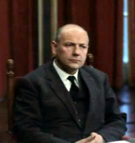 Joop den Uyl in 1965